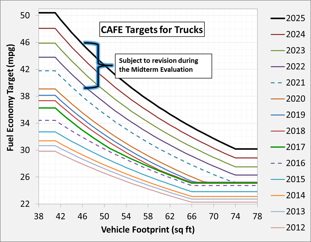 2012 to 2025 CAFE targets for light trucks undergoing mid-term evaluation